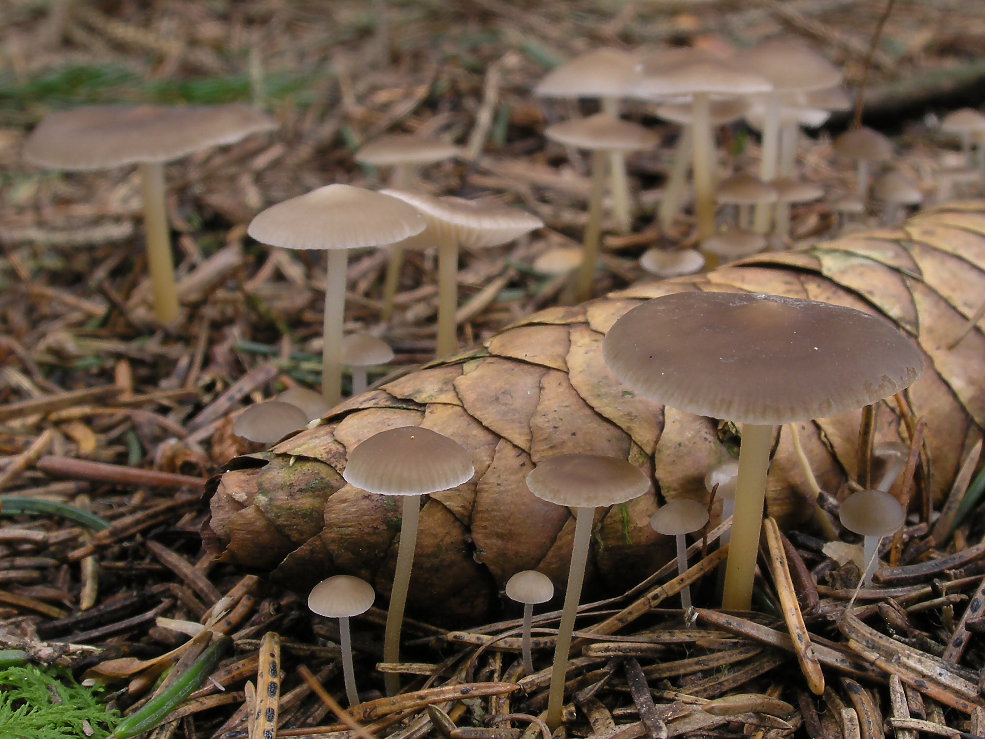 Sprucecone Cap (Strobilurus esculentus)